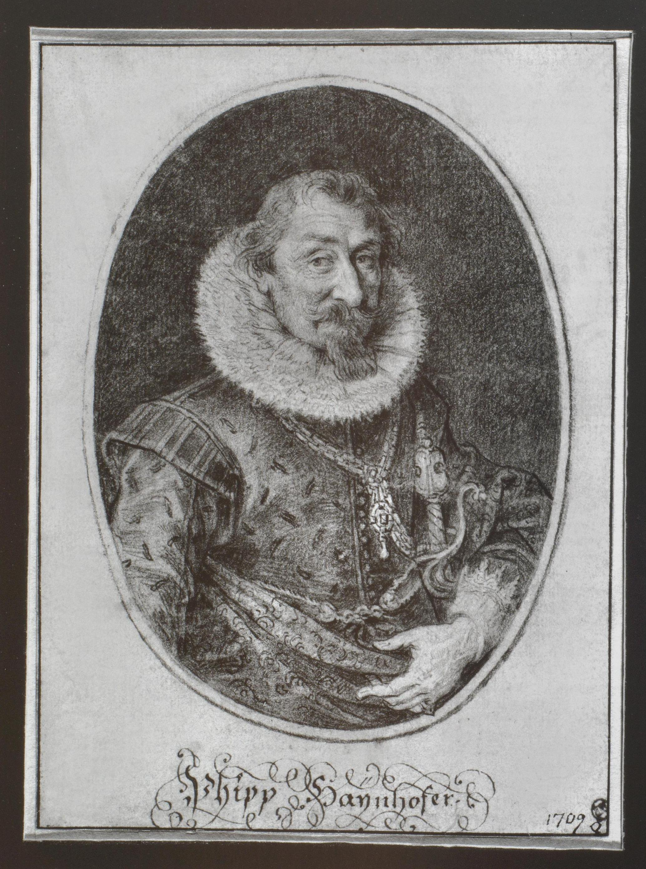 Portrait of Philipp Hainhofer